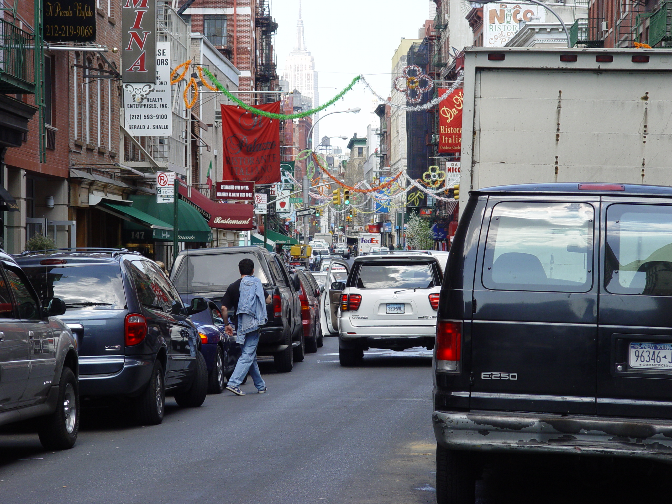 Little Italy in New York City.